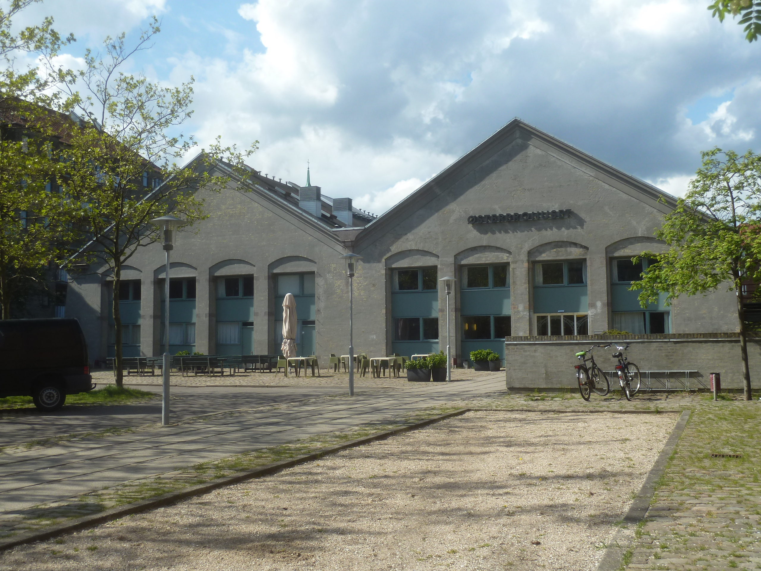 The former Århusgade Remise, now a community centre and sports venue, in Århusgade, Østerbro, Copenhagen, Denmark